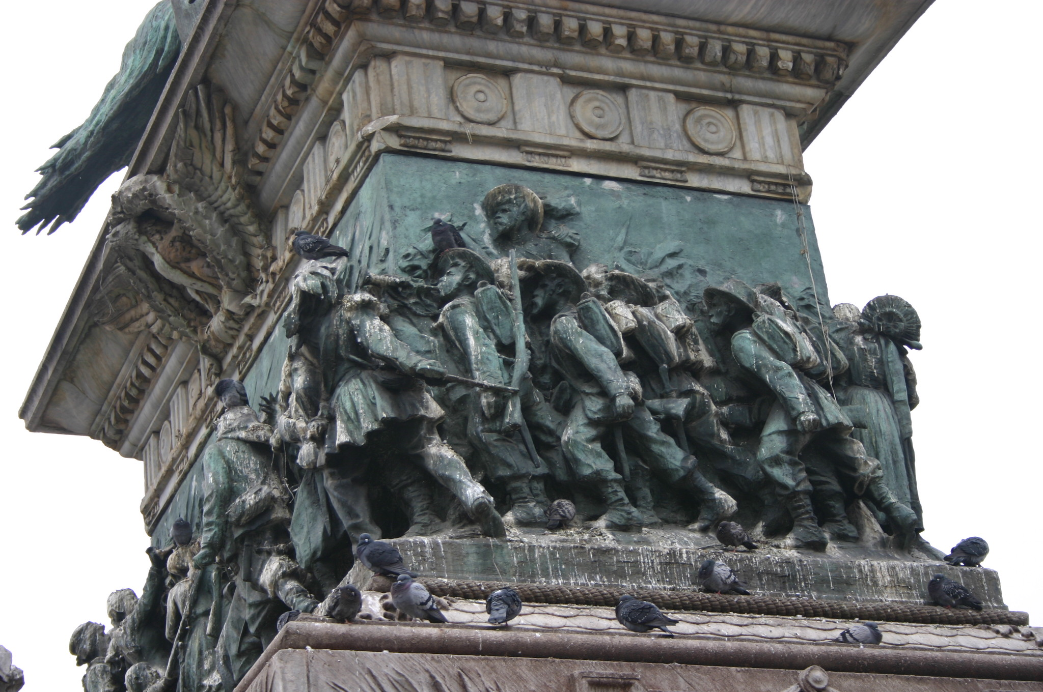 Detail from the monument to king Victor Emmanuel II in Duomo Square in Milan, Italy. It was modelled by Ercole Rosa and erected in 1896. Picture by Giovanni Dall'Orto, January 15 2007.